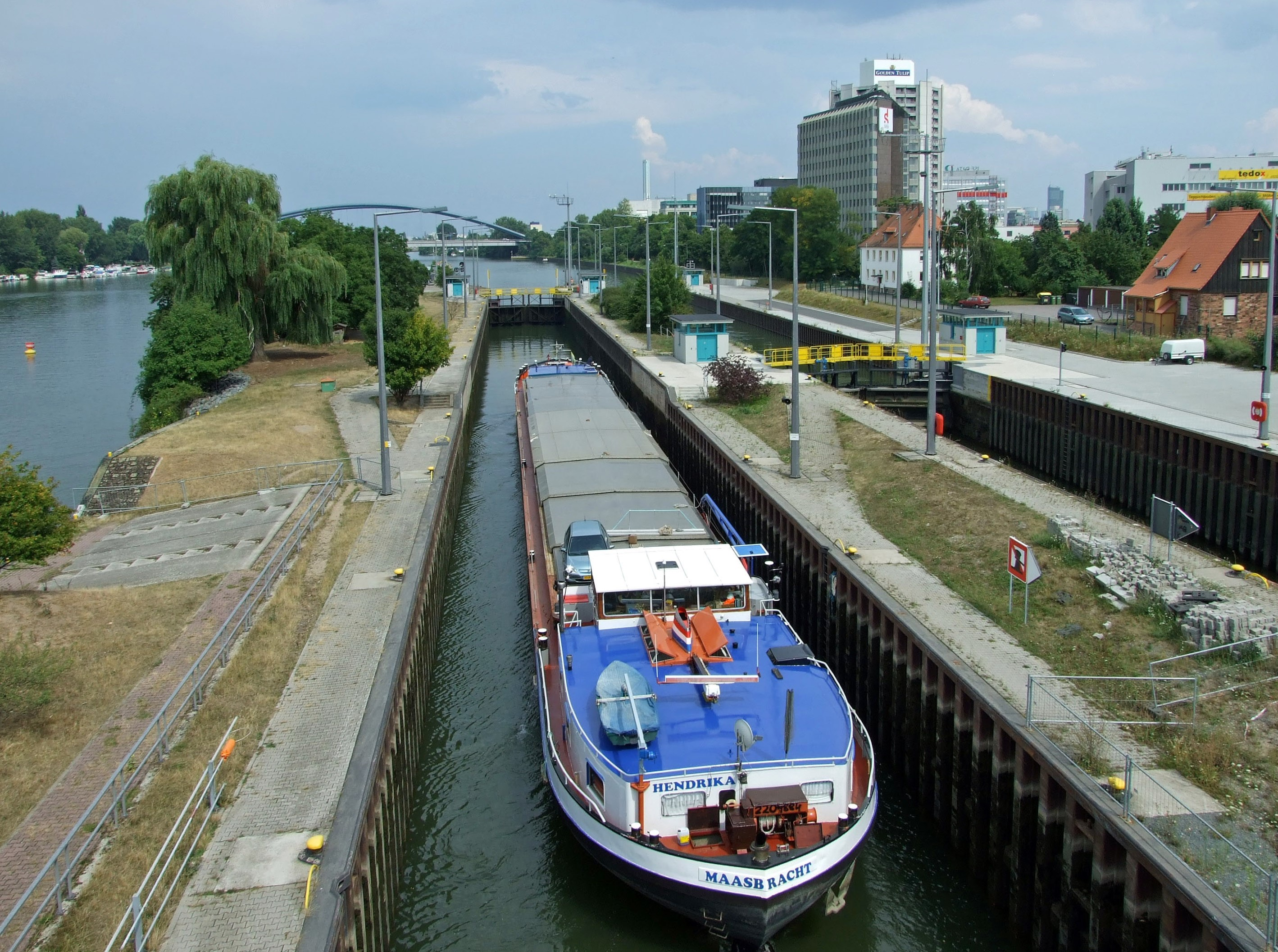 Sluice (top side) at Offenbacher Schleuse, Main river, Offenbach am Main